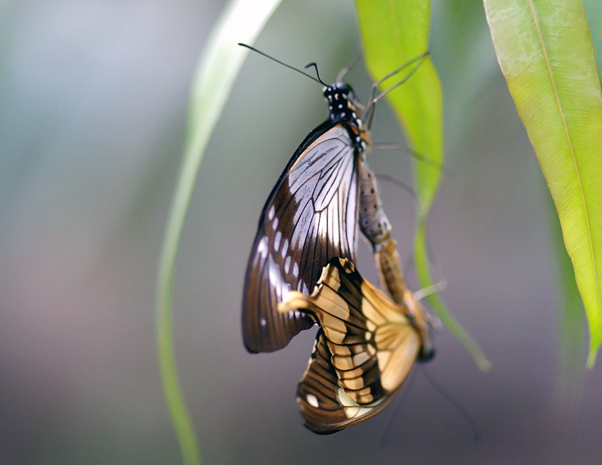 Papilio dardanus mating. Taken at 'Butterflies Go Free' of the Insectarium and Botanical Garden of Montreal.